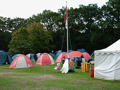 This is a Scout campsite in the summer of 2006 at Gilwell Park, England.